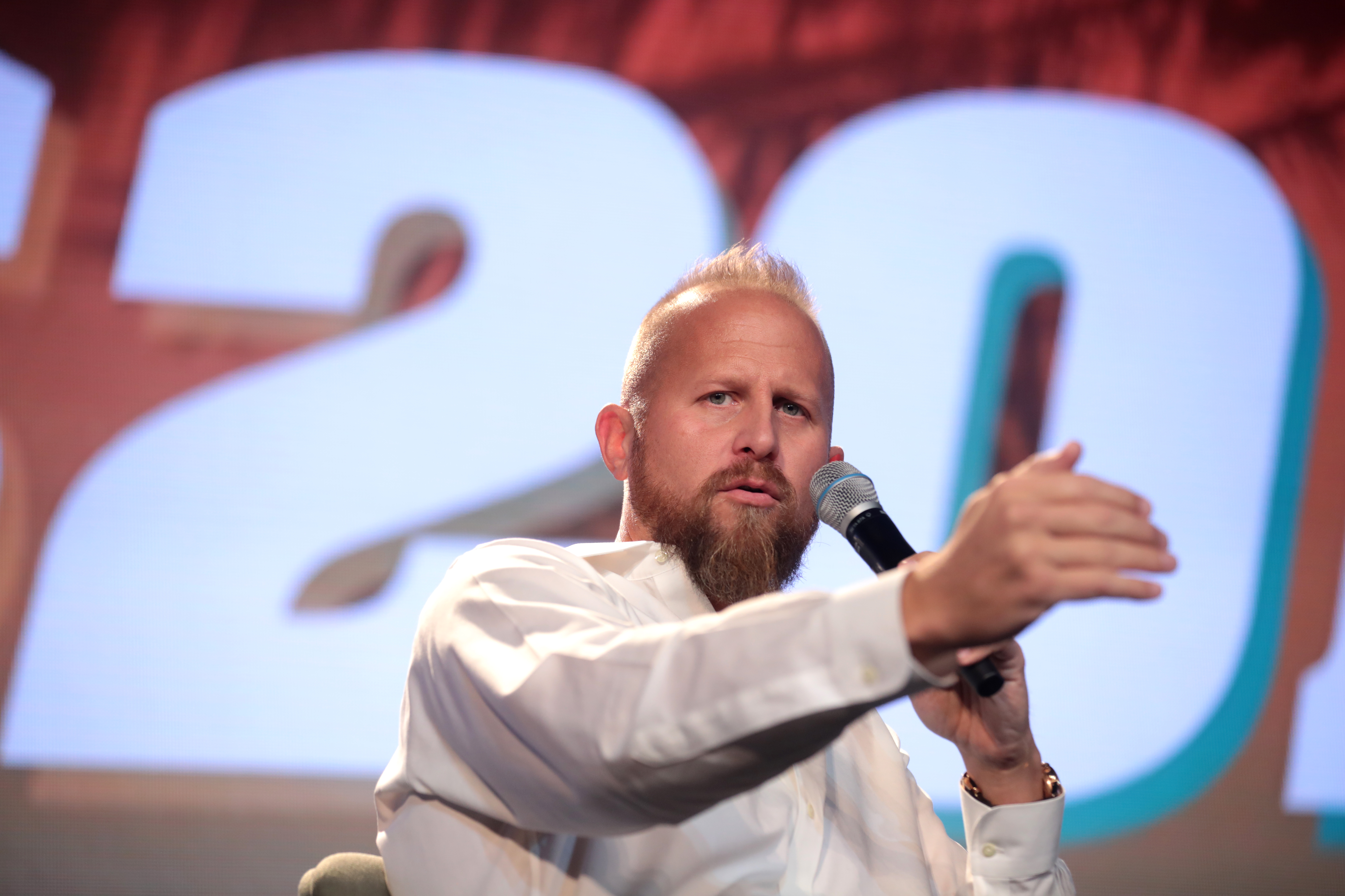 Brad Parscale speaking at an event in West Palm Beach, Florida.